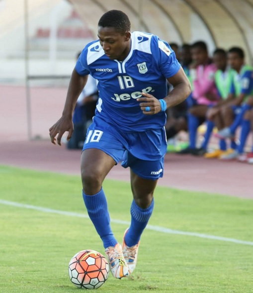 Mechac Koffi in action in a match for Al Nasr Club of Oman in 2016. 4 February 2016 Auqad Sports Complex, Auqad, Salalah, Oman Photographer email id